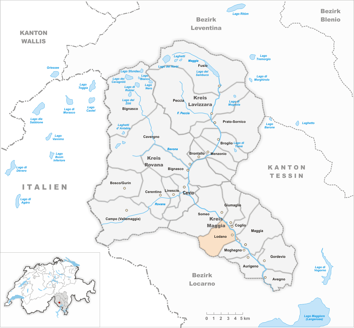 Municipality Lodano